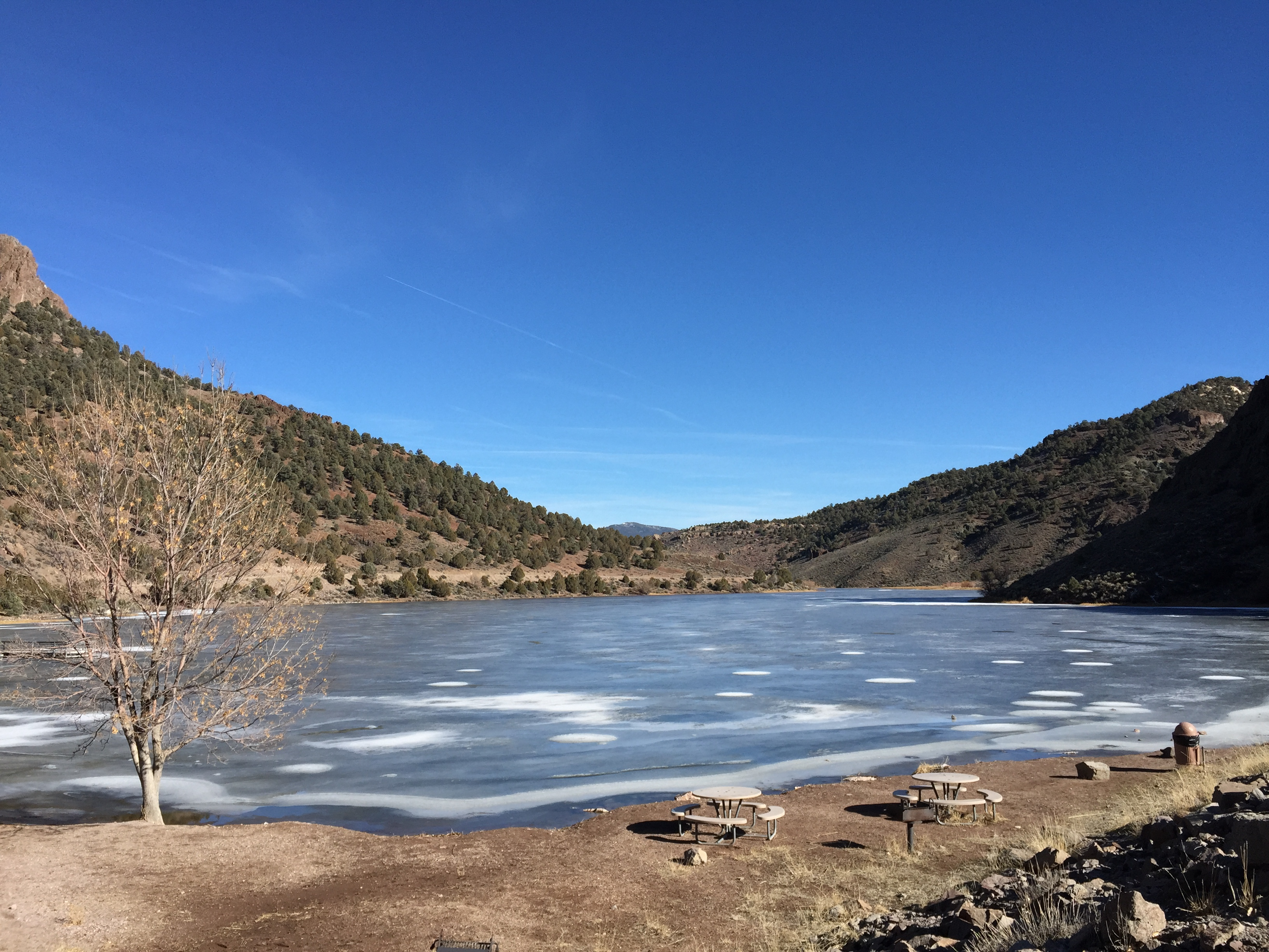 View east across Eagle Valley Reservoir in Spring Valley State Park, Nevada